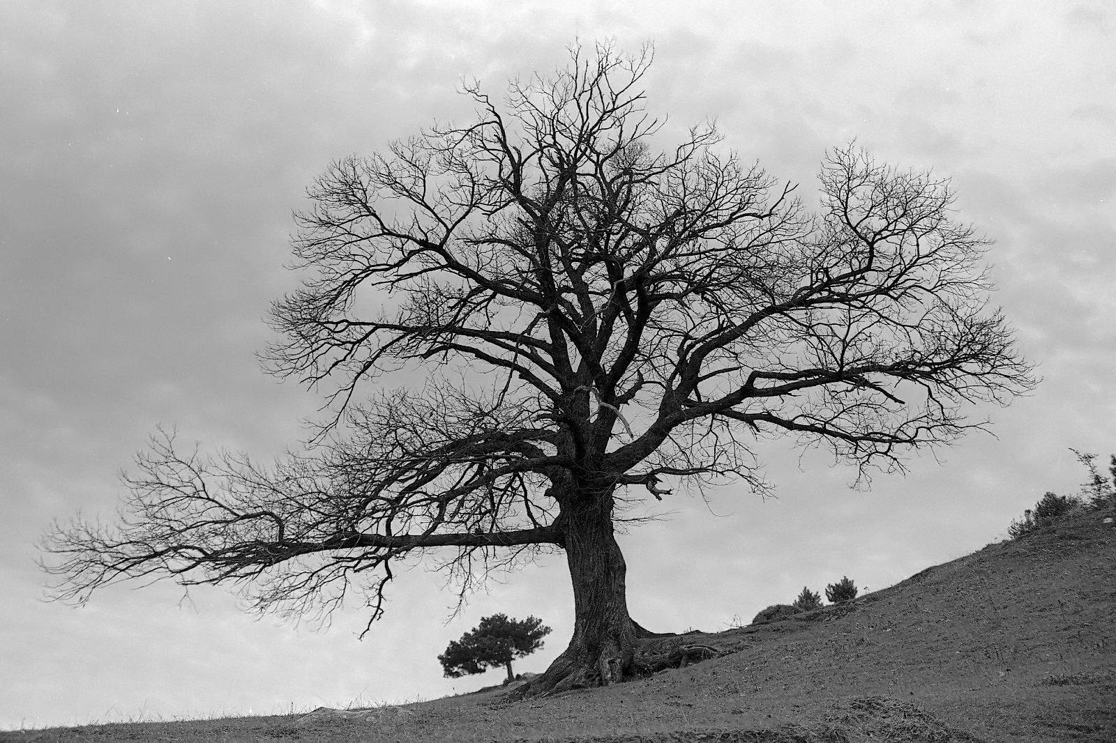 Lone tree